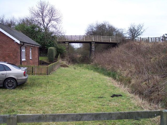 Brinkburn railway station. Disused station at Brinkburn near Rothbury, Northumberland